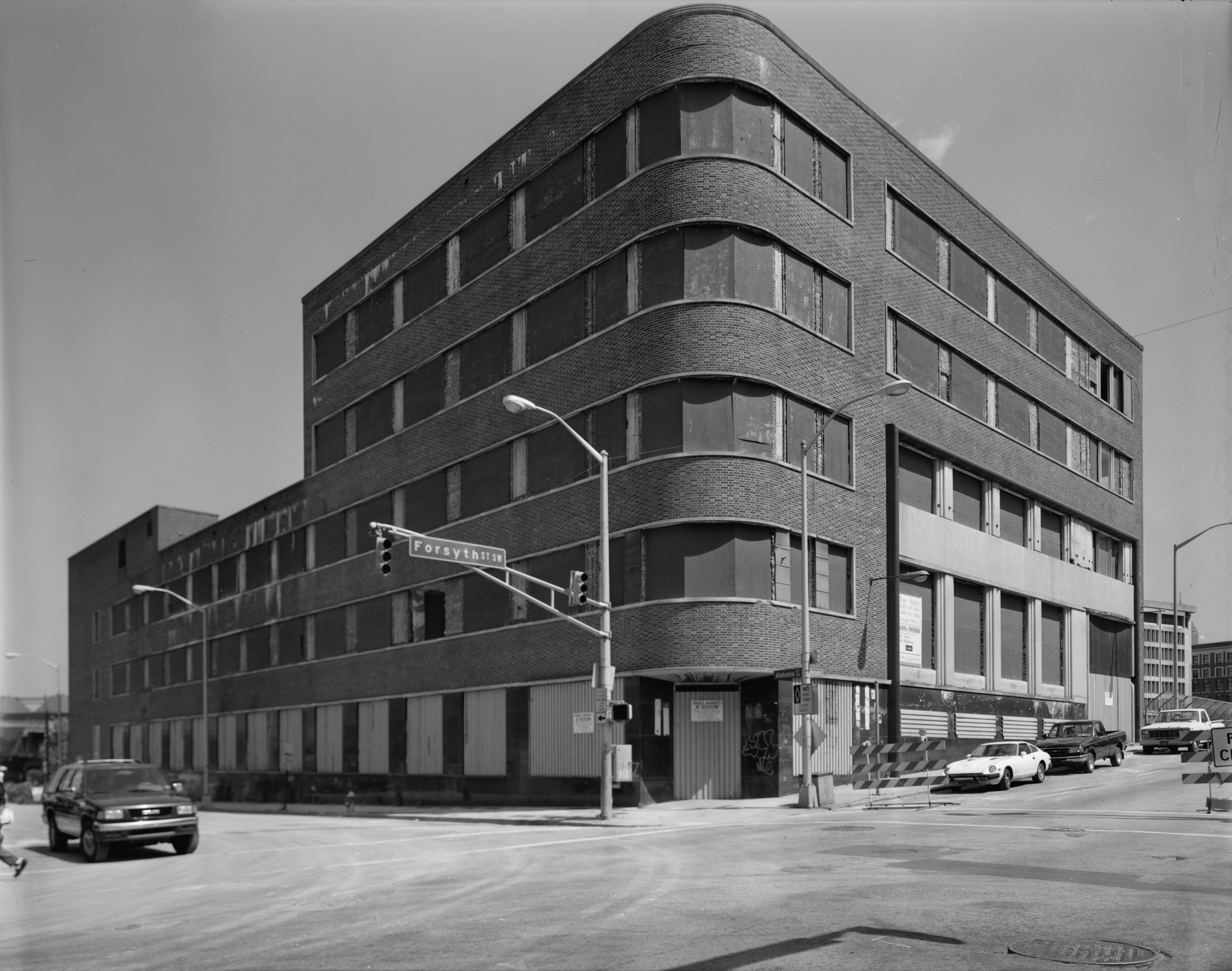 Atlanta Constitution Building — Cropped from the full frame version. Below is info from there From the photo caption page [1] "VIEW OF THE SOUTH SIDE AND EAST FRONT ELEVATIONS FACING NORTHWEST" TITLE: Georgia Power Atlanta Division Building, 143 Alabama Street, Atlanta, Fulton County, GA CALL NUMBER: HABS GA-2374-1 CREATOR: Historic American Buildings Survey NOTE: Survey number HABS GA-2374 Building/structure dates: 1947 initial construction Building/structure dates: 1953 subsequent work Significance This Art Moderne six story Flemish bond brick, marble, and limestone building features a flat roof, rounded corners, and horizontal bands of windows. The building was known as the Atlanta Constitution Building until the Atlanta Journal and the Atlanta Constitution consolidated and outgrew this facility in 1955. The building was occupied by the Georgia Power Company until 1972 and has been unoccupied ever since. The building is considered eligible for architecture under National Register Criterion C as one of the earliest, if not the earliest, "Modern" style building in the City of Atlanta. The property also possesses a local level of significance in the area of industry under Criterion A for its association with the Georgia Power Company.